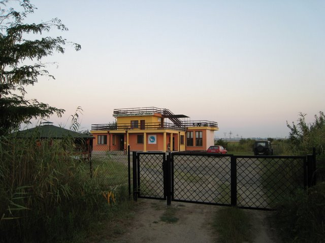 I took this photo myself. It is a front view of the Poda Nature Center, which is south of Burgas in Bulgaria.